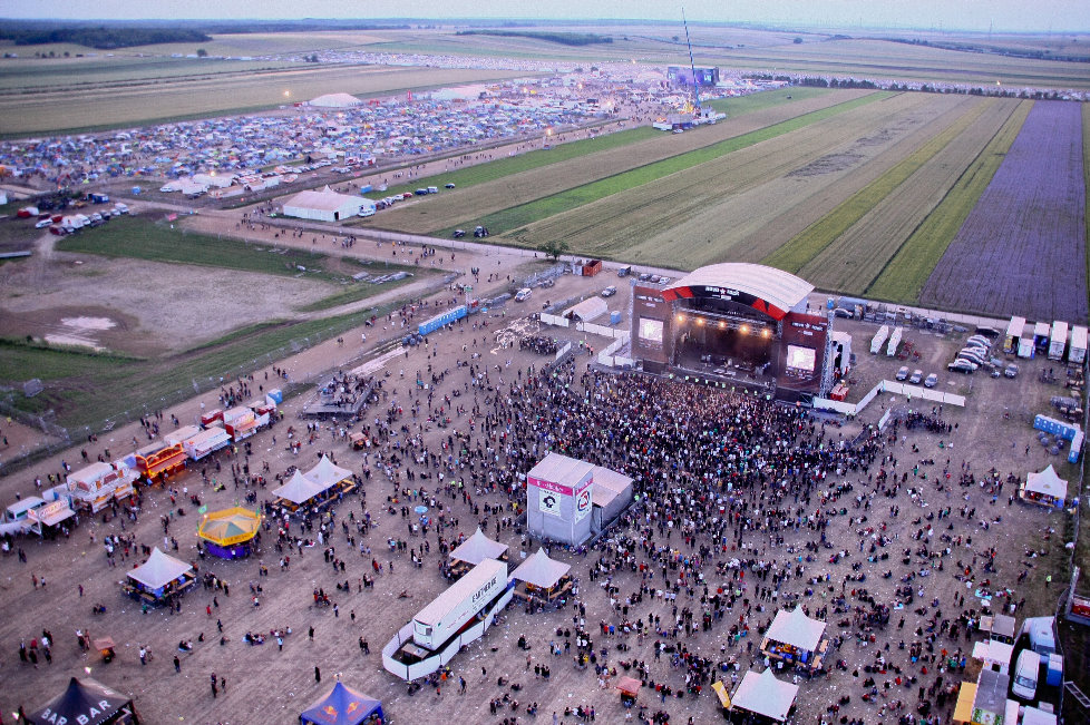 Novarock Festival, Nickelsdorf/Austria